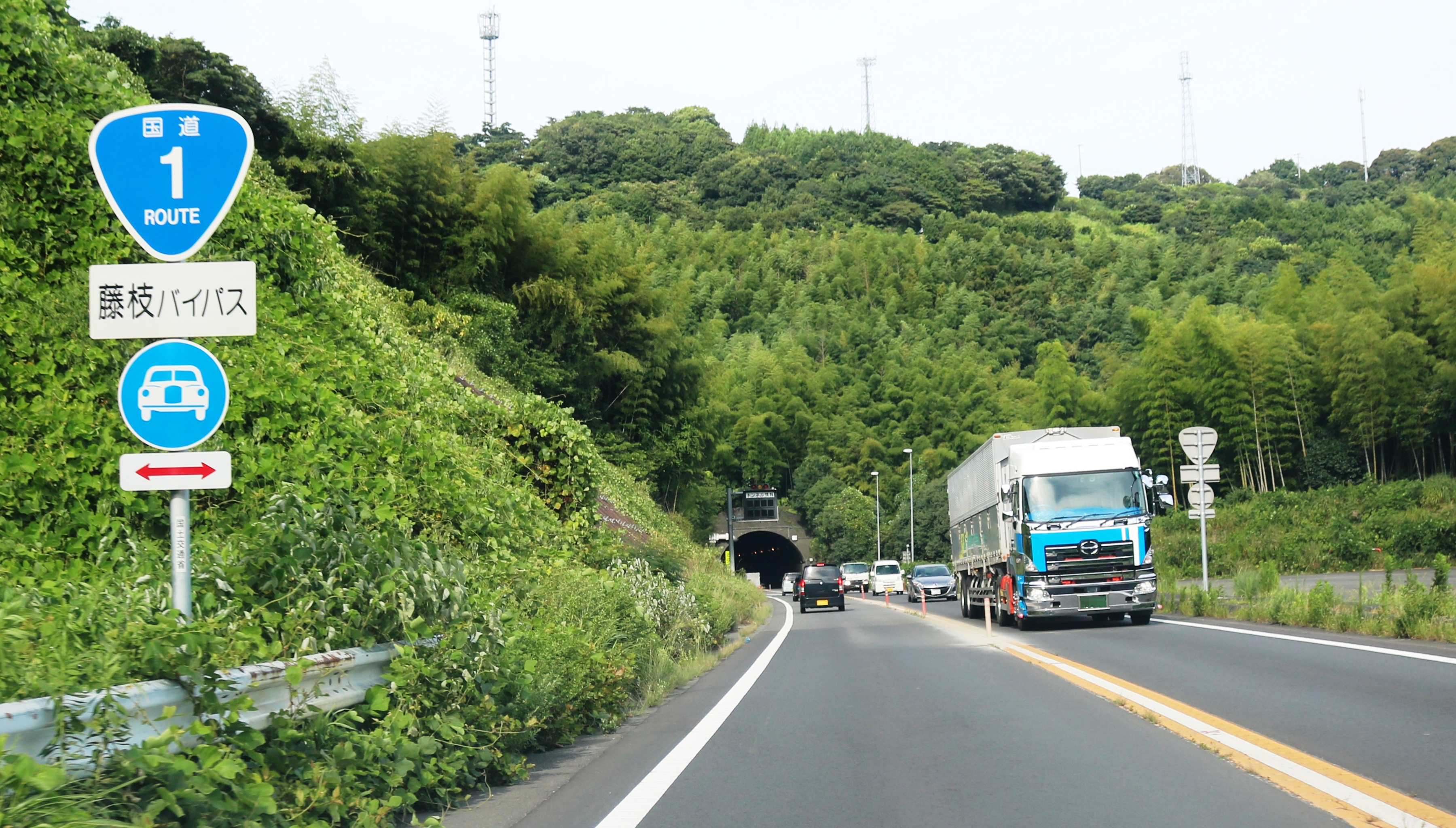 Fujieda Bypass of Route 1 in Tokigaya, Fujieda, Shizuoka Prefecture, Japan.